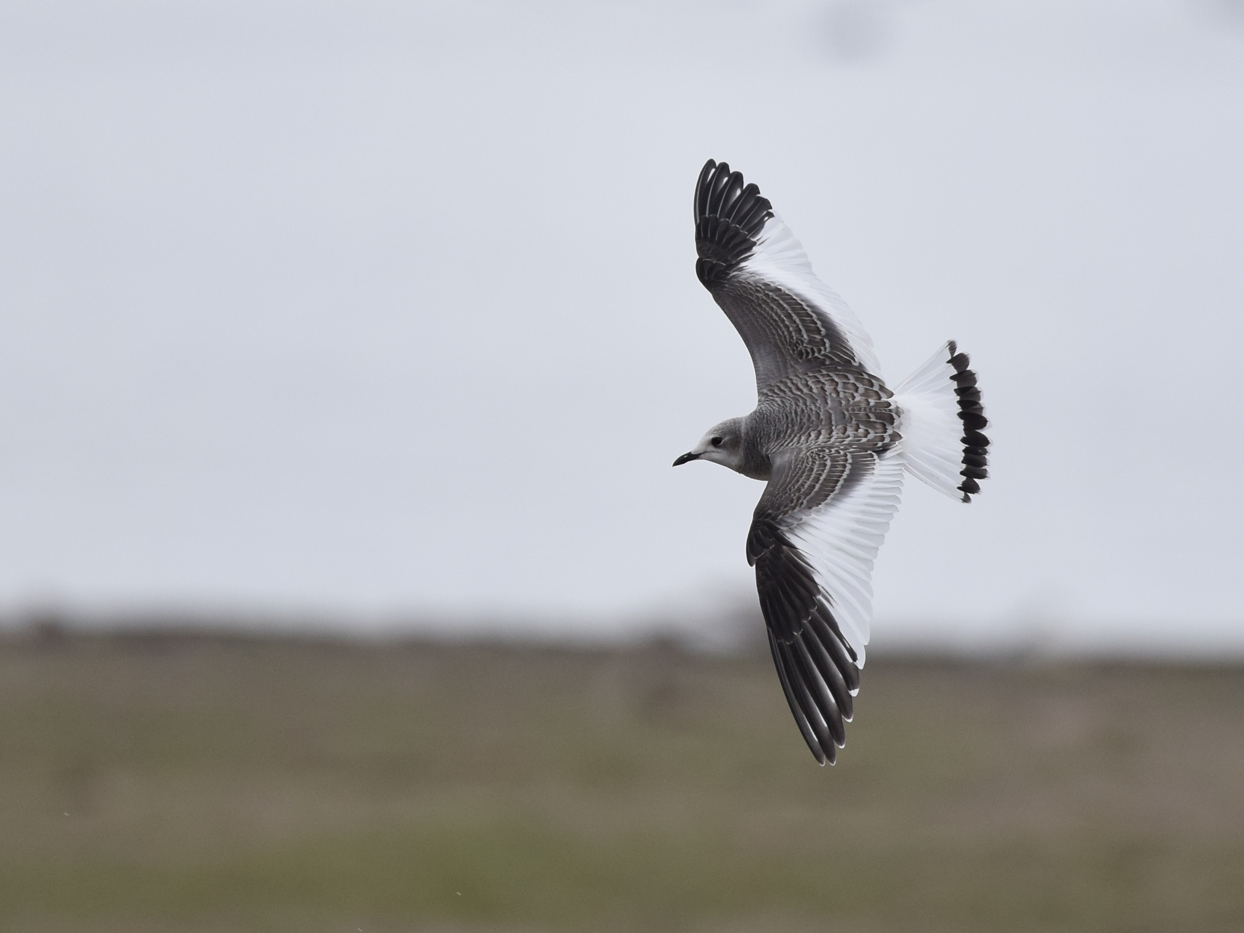 Riverlands Migratory Bird Sanctuary 10/2/16 West Alton, MO